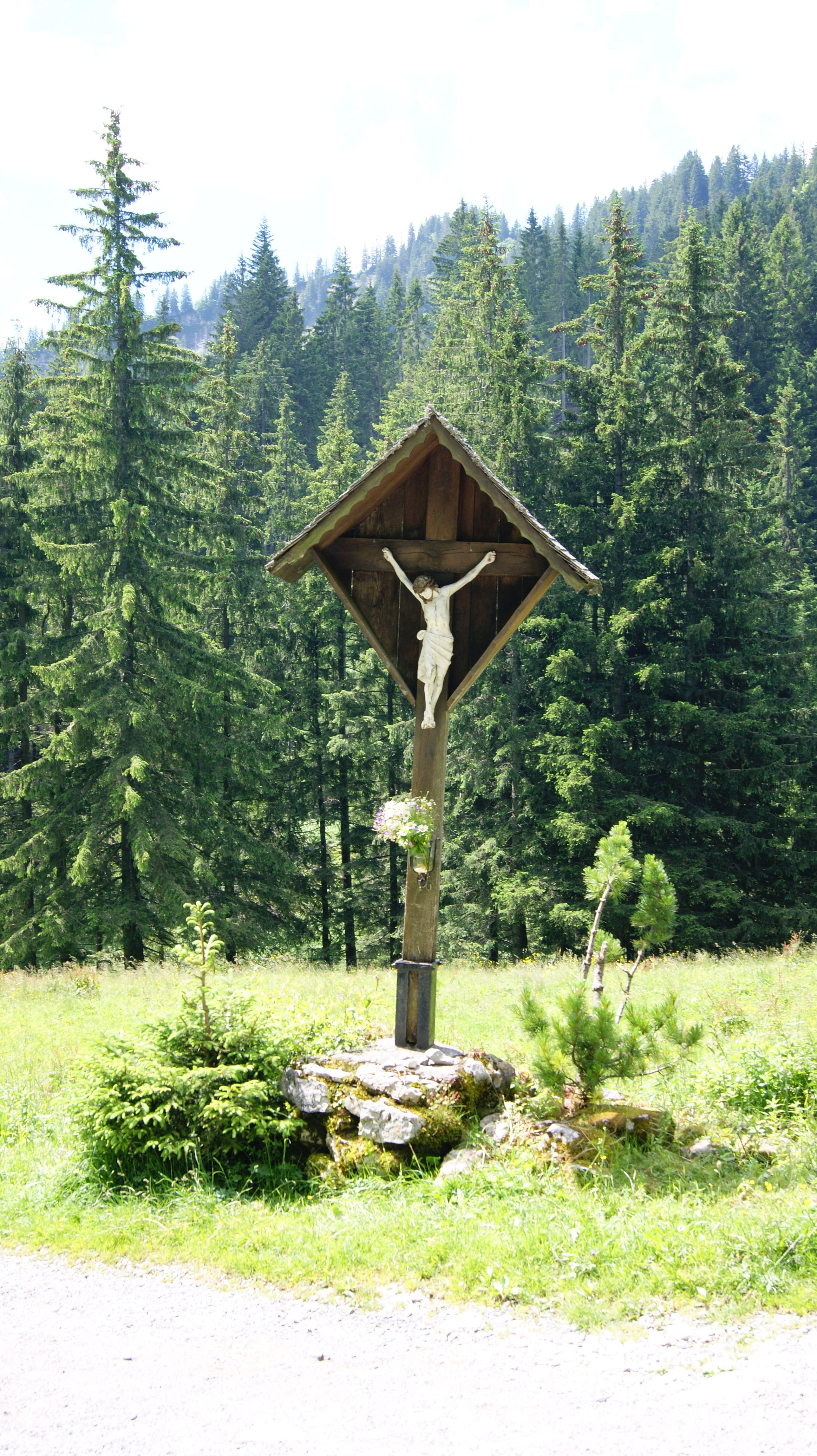 Wayside cross at the intersection of the road from Schuttannen, the Emser Hütte (chalet and hikers accommodation) and Pfarrers Älpele (meaning: "Alp of the priest") on Hohenems municipality in Vorarlberg, Austria.